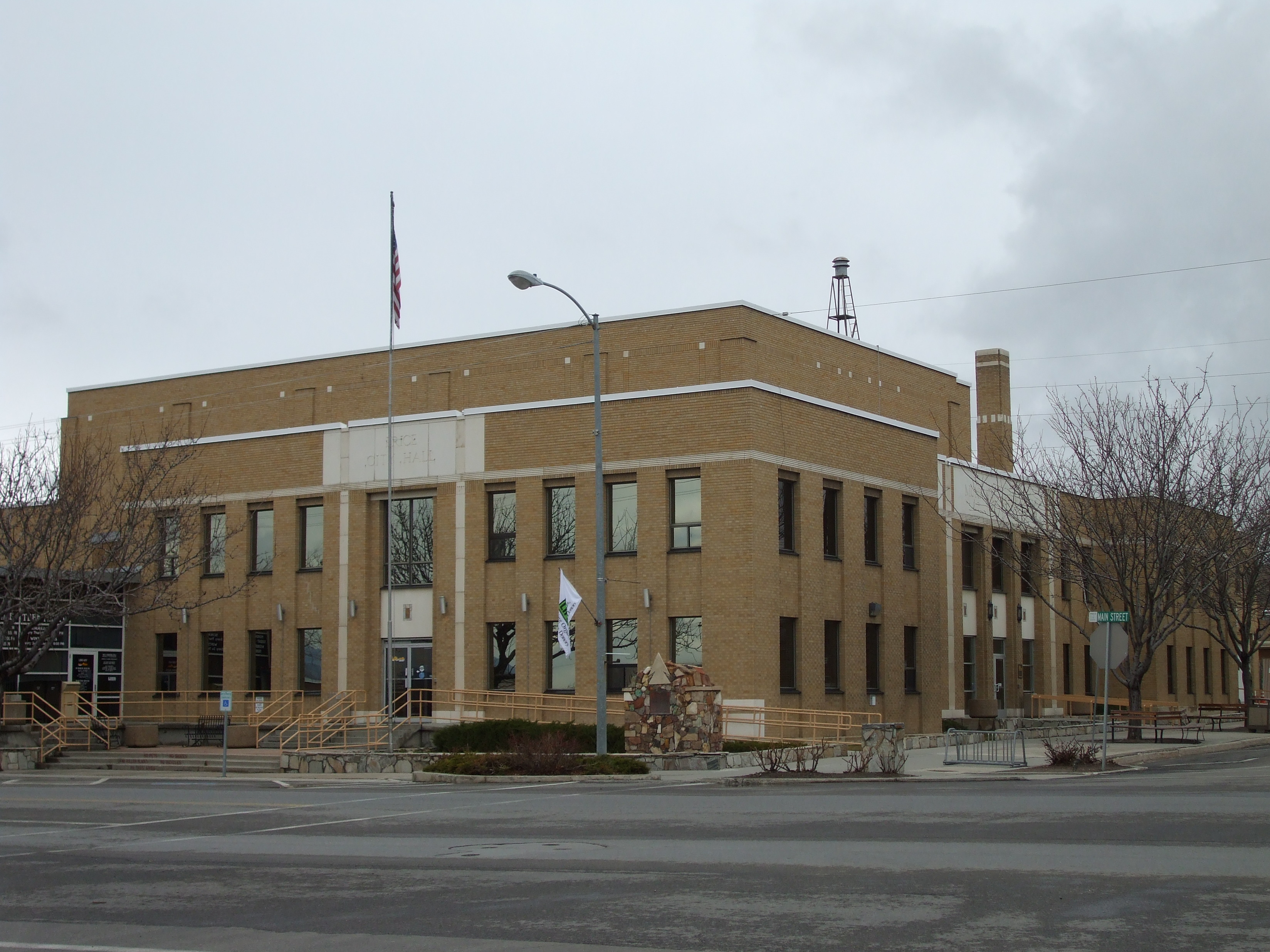 The Price Municipal Building, a historic building in Price, Utah, United States.